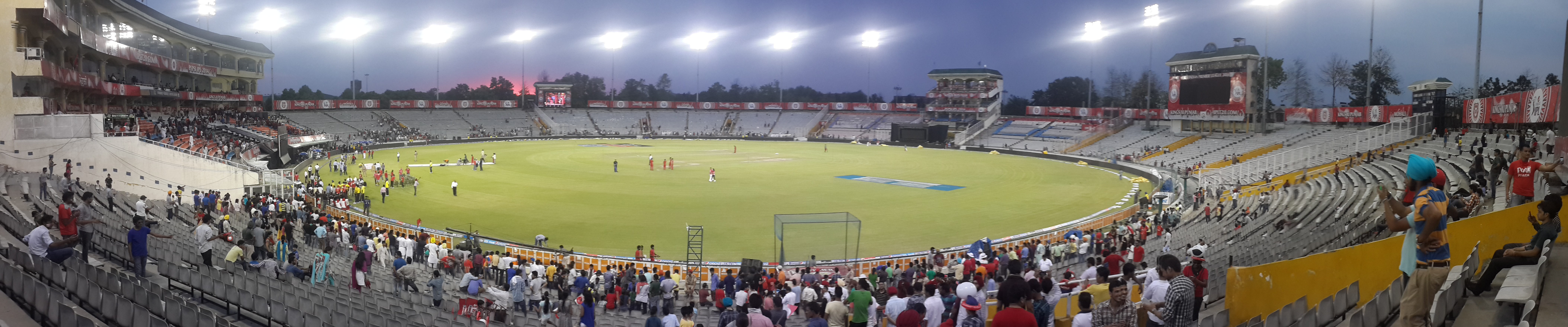 A panorama of the Punjab Cricket Association Stadium, Mohali.